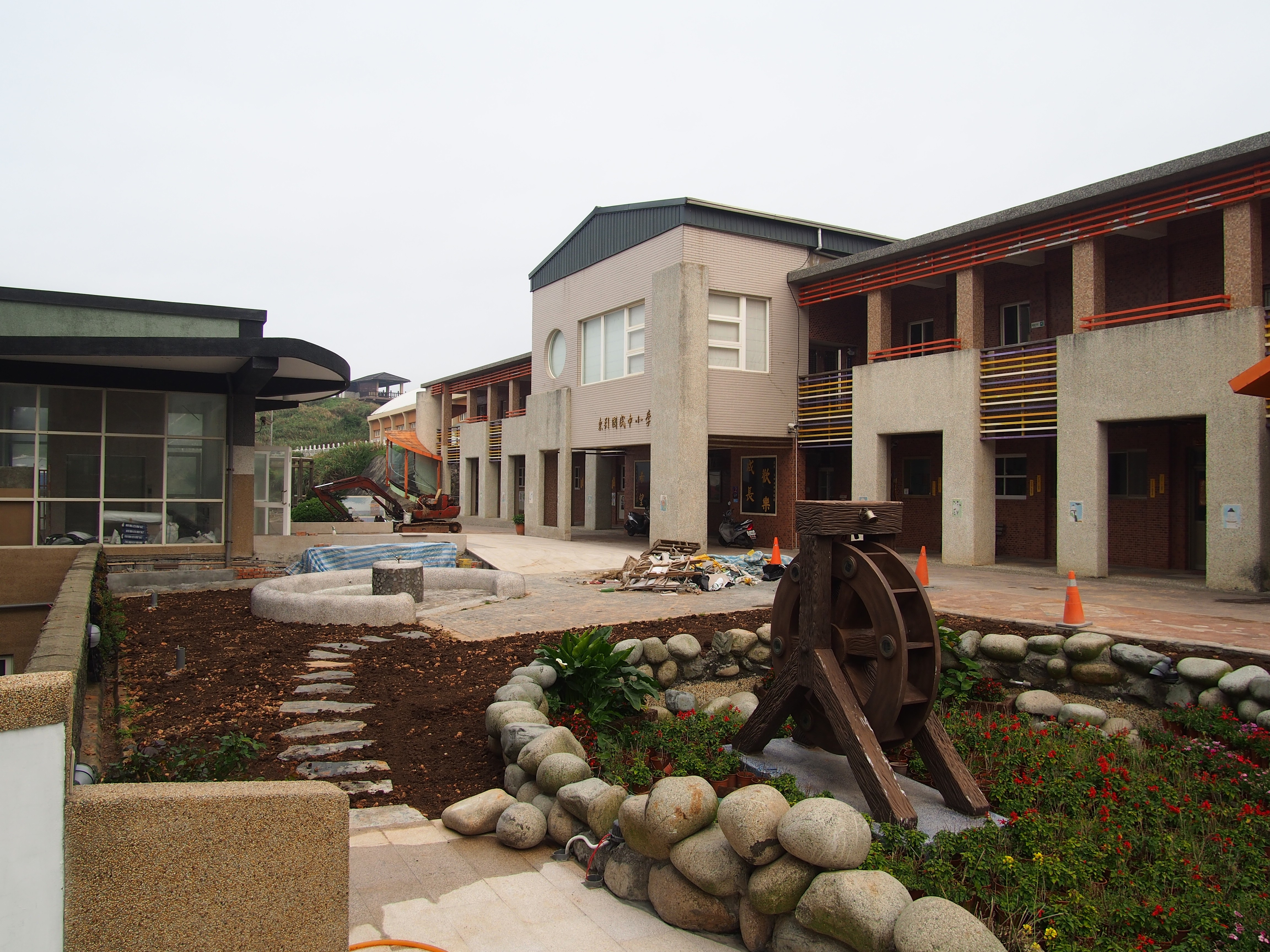 Dongyin Primary and Middle School - 2016.04